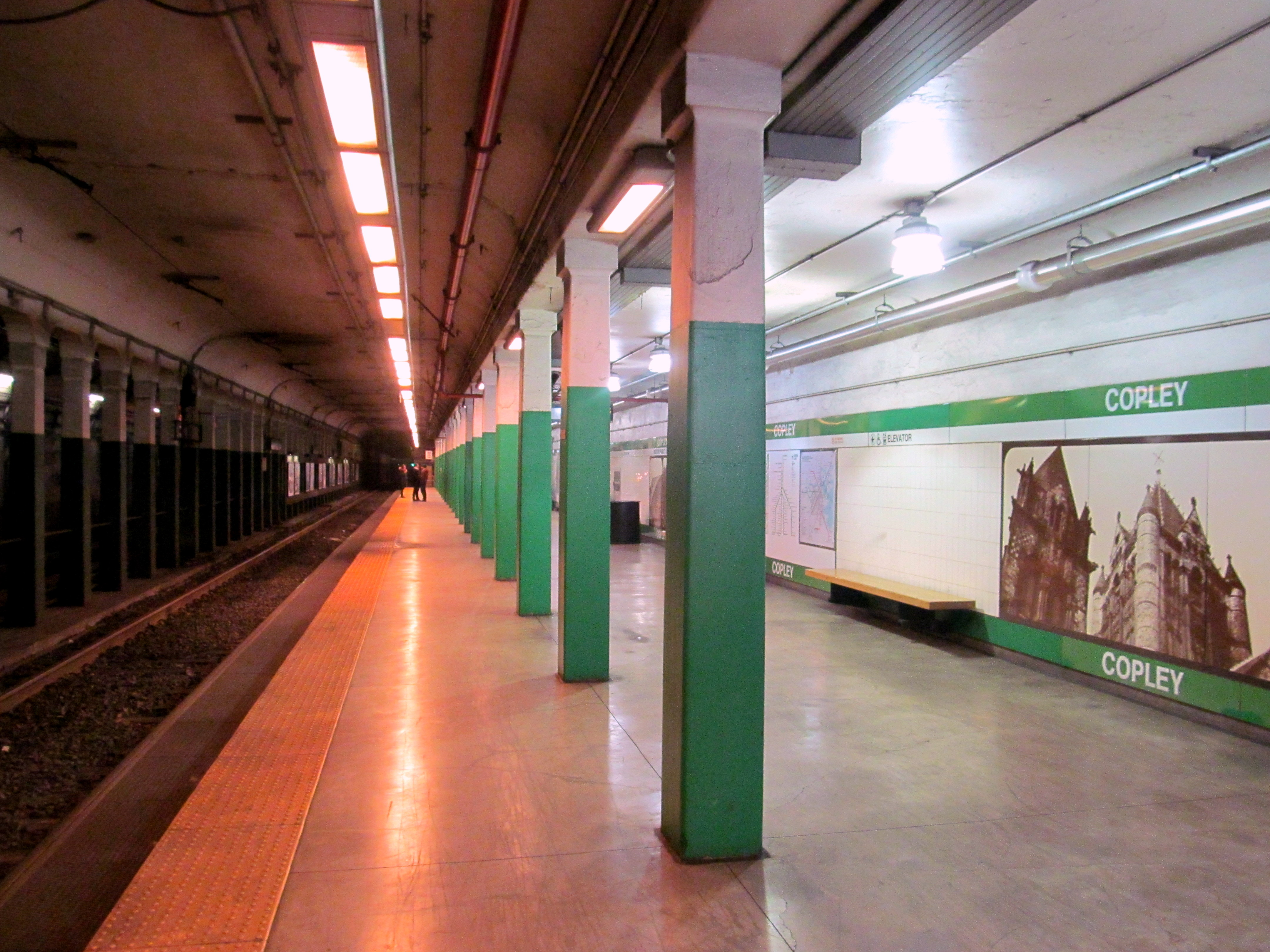 Outbound platform at Copley station in January 2014